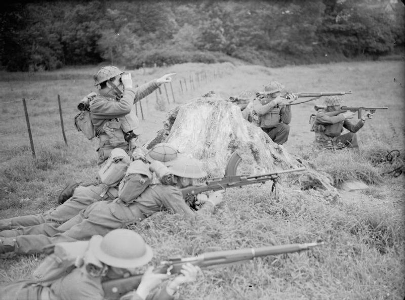 Allied Forces in the United Kingdom 1939-45 Troops of the Norwegian Brigade 'in action' during training at Dumfries, Scotland, 27 June 1941.